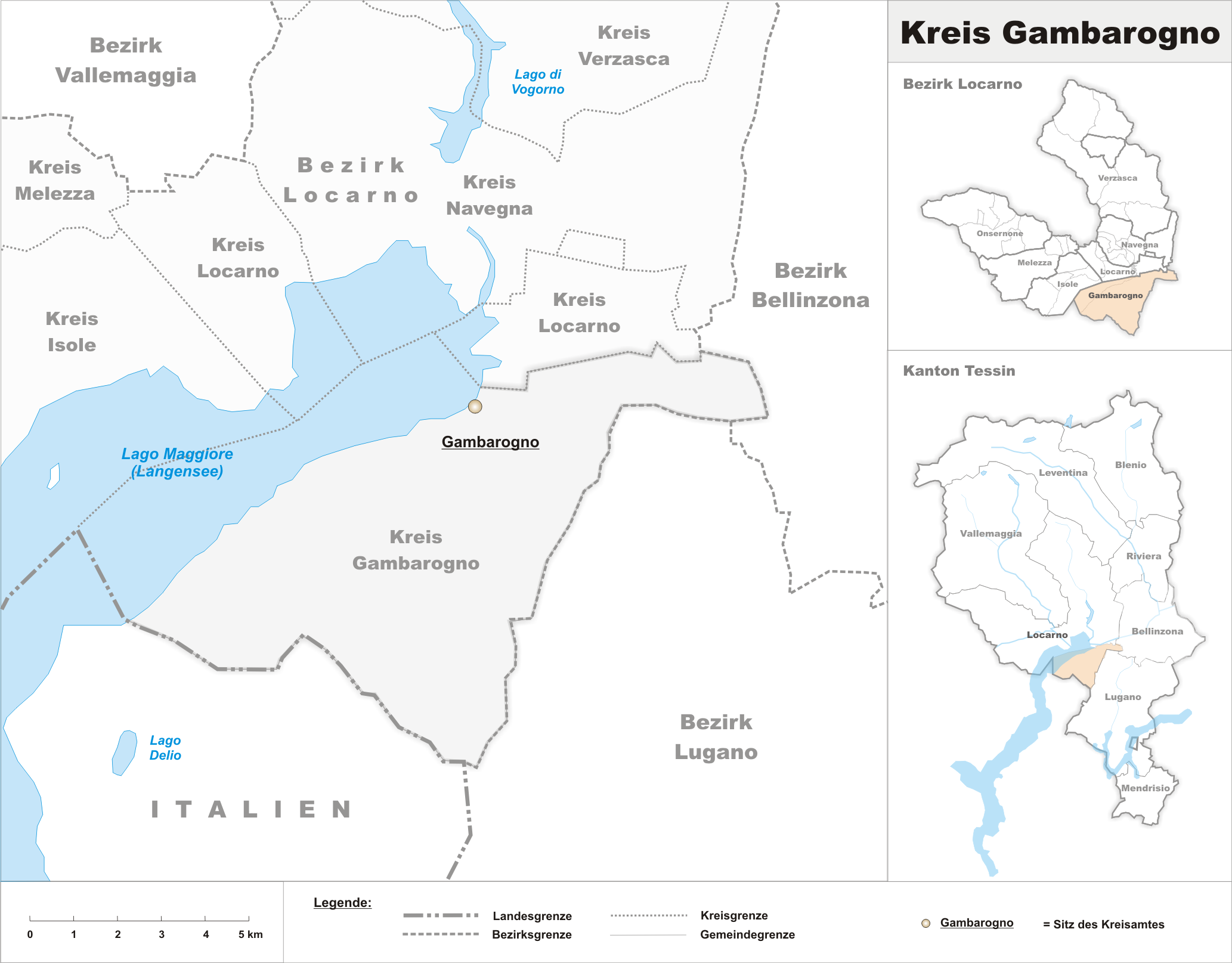 Municipalities in the circle of Gambarogno